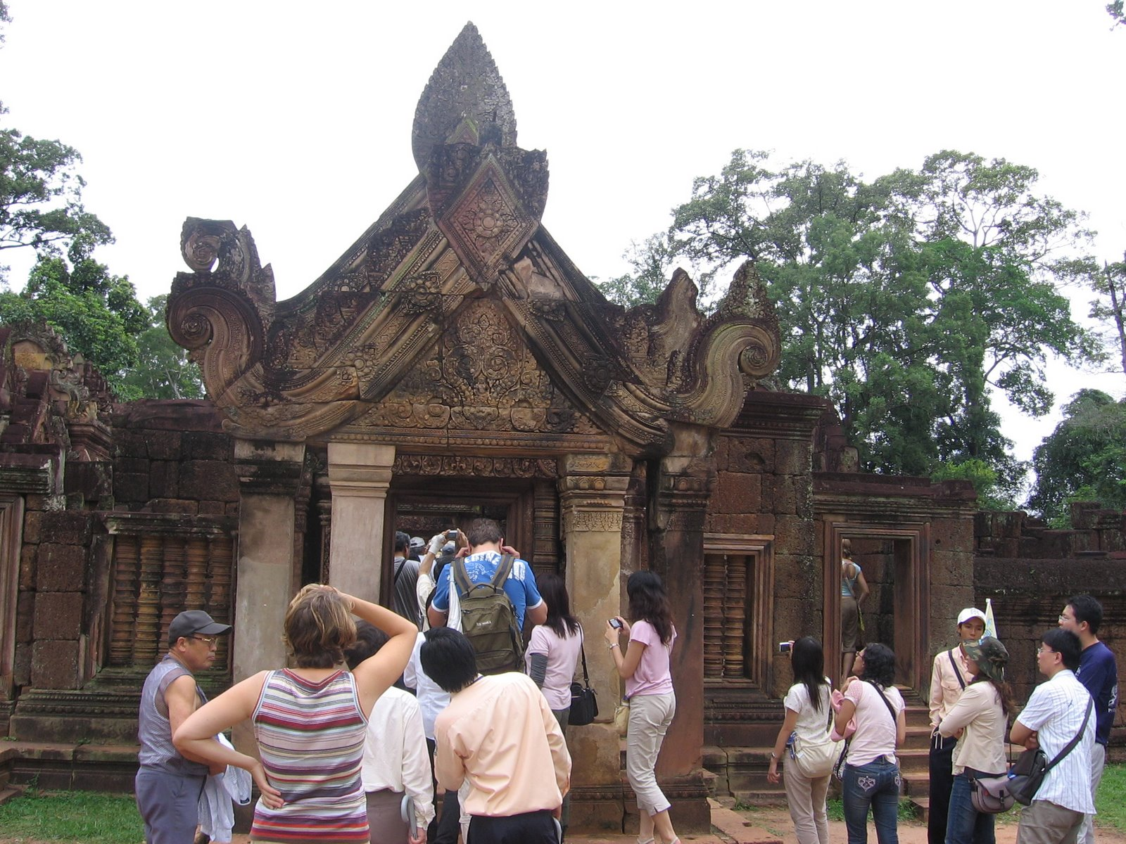 Gopura